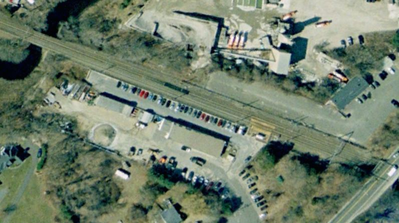 Aerial view of Westbrook station in 2008, showing the old platform location and the town garage which was torn down in 2012